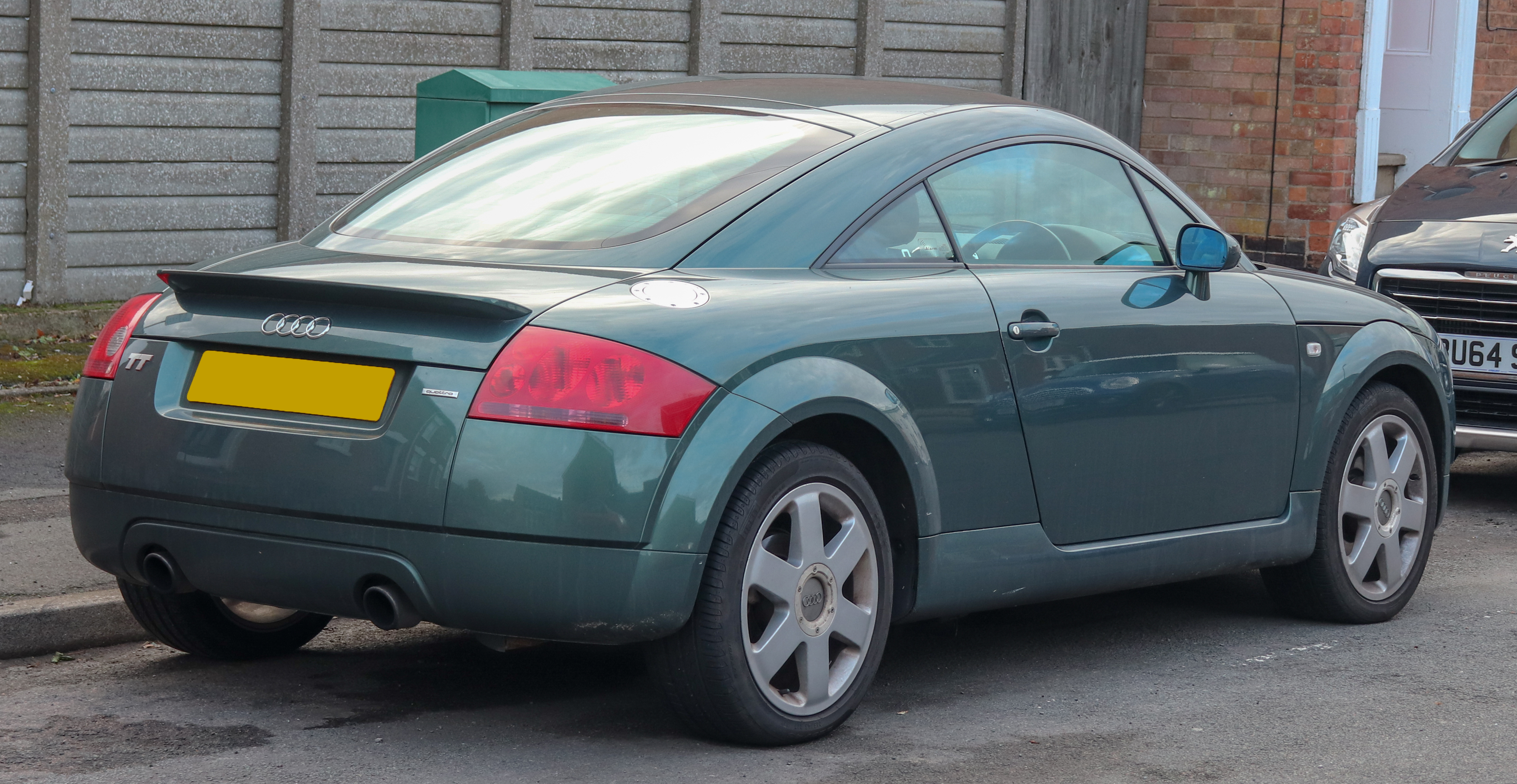 2000 Audi TT Quattro 1.8 Rear Taken in Warwick